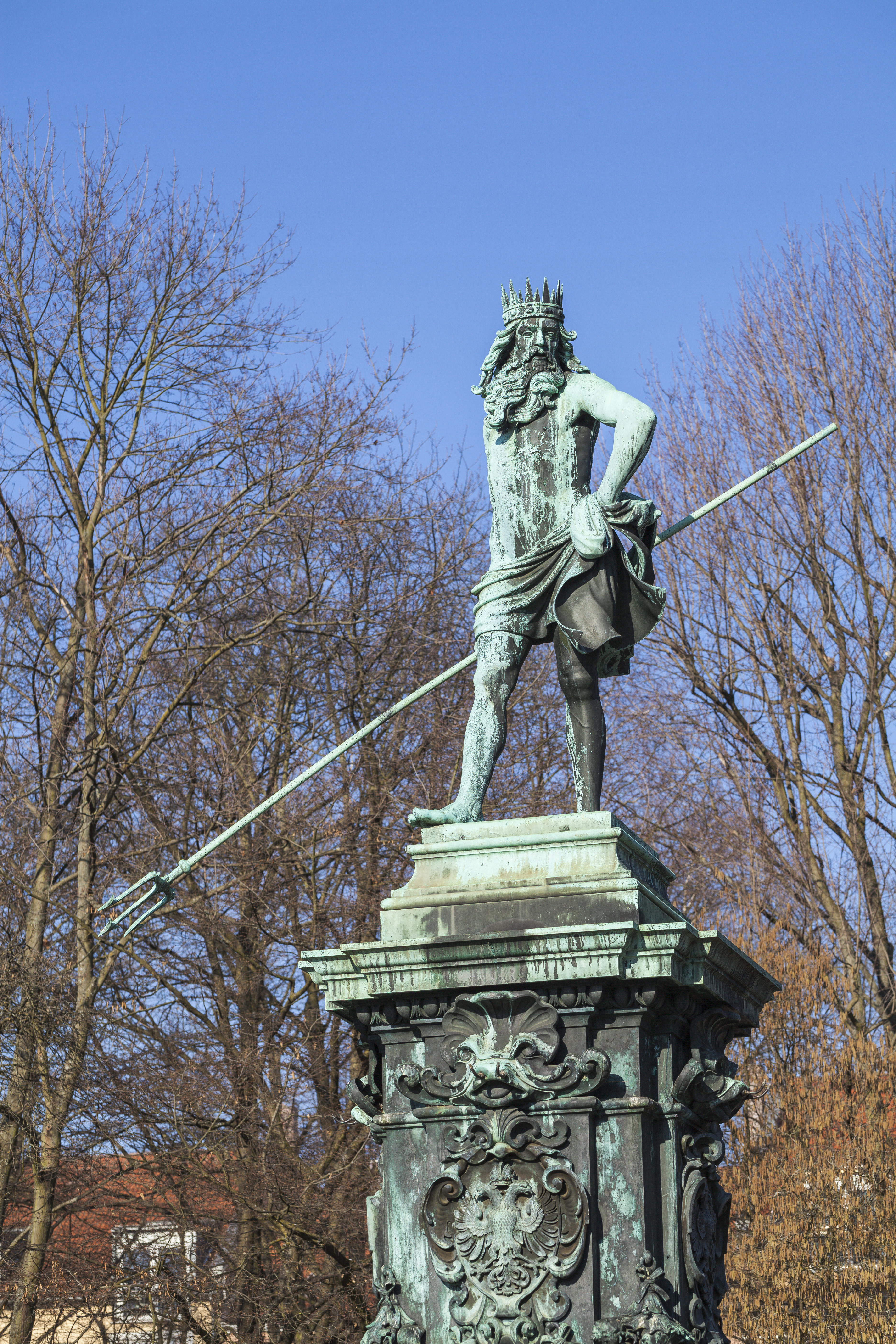 Neptune Fountain, Nuremberg, Germany